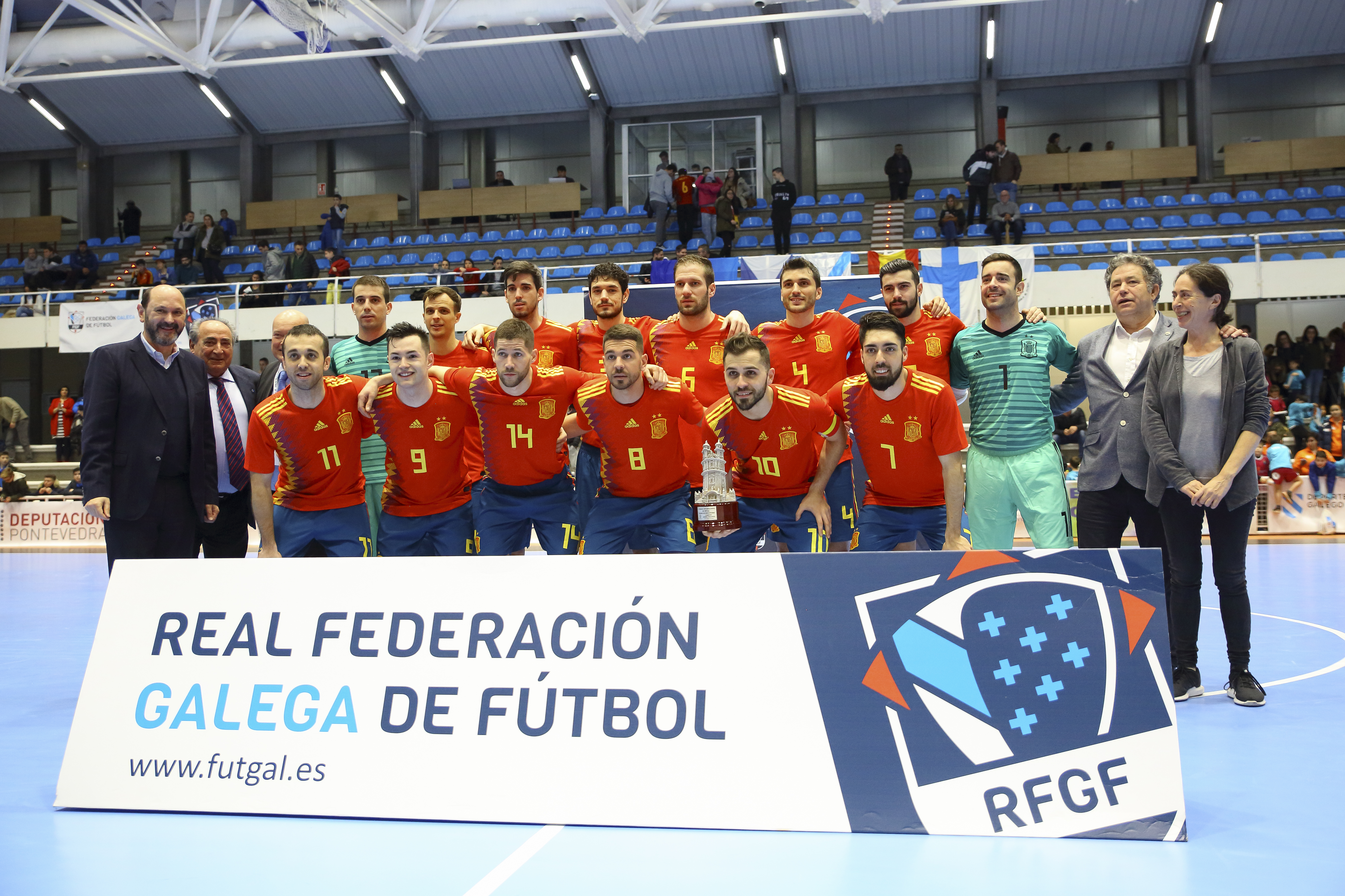 Futsal international friendly match between Spain and Finland at Pabellon Municipal de Pontevedra on April 2, 2018 in Pontevedra, Spain.